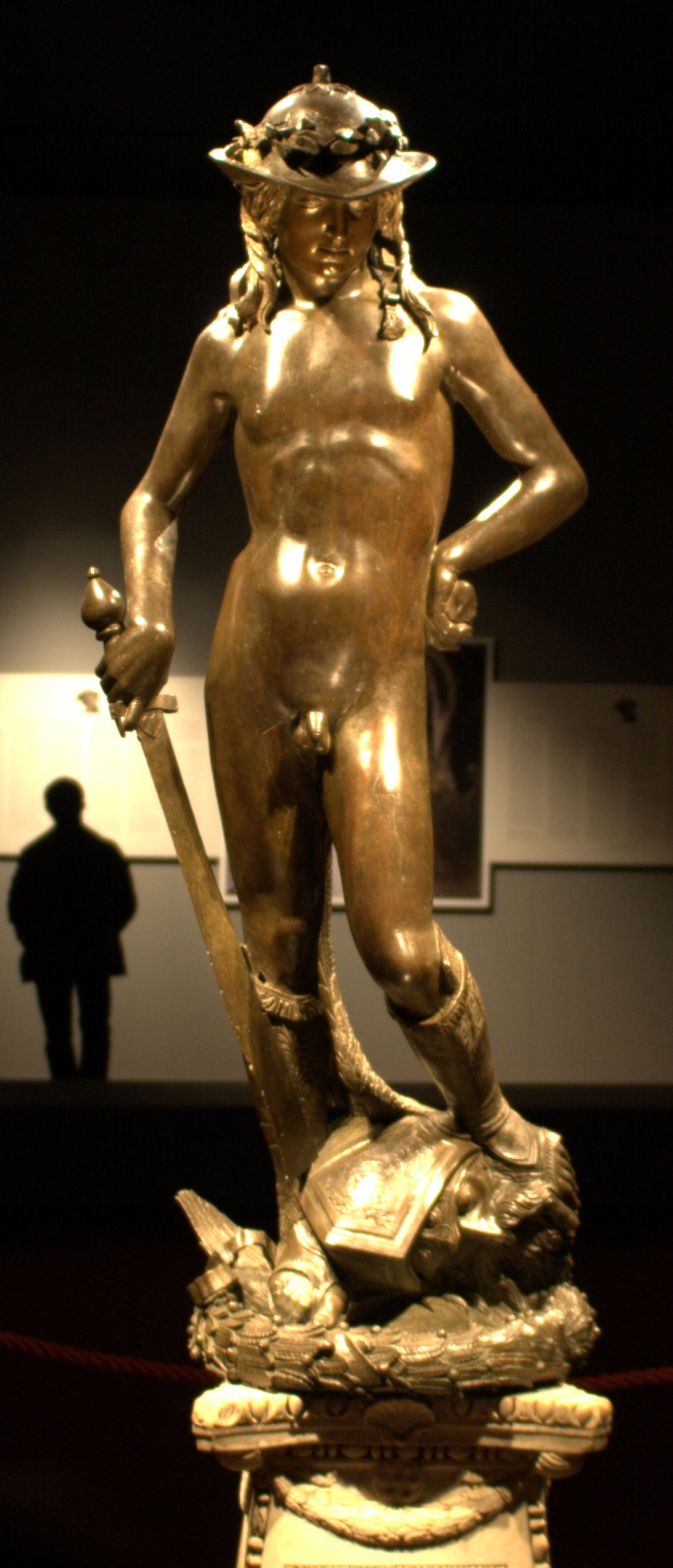 see abovesee above